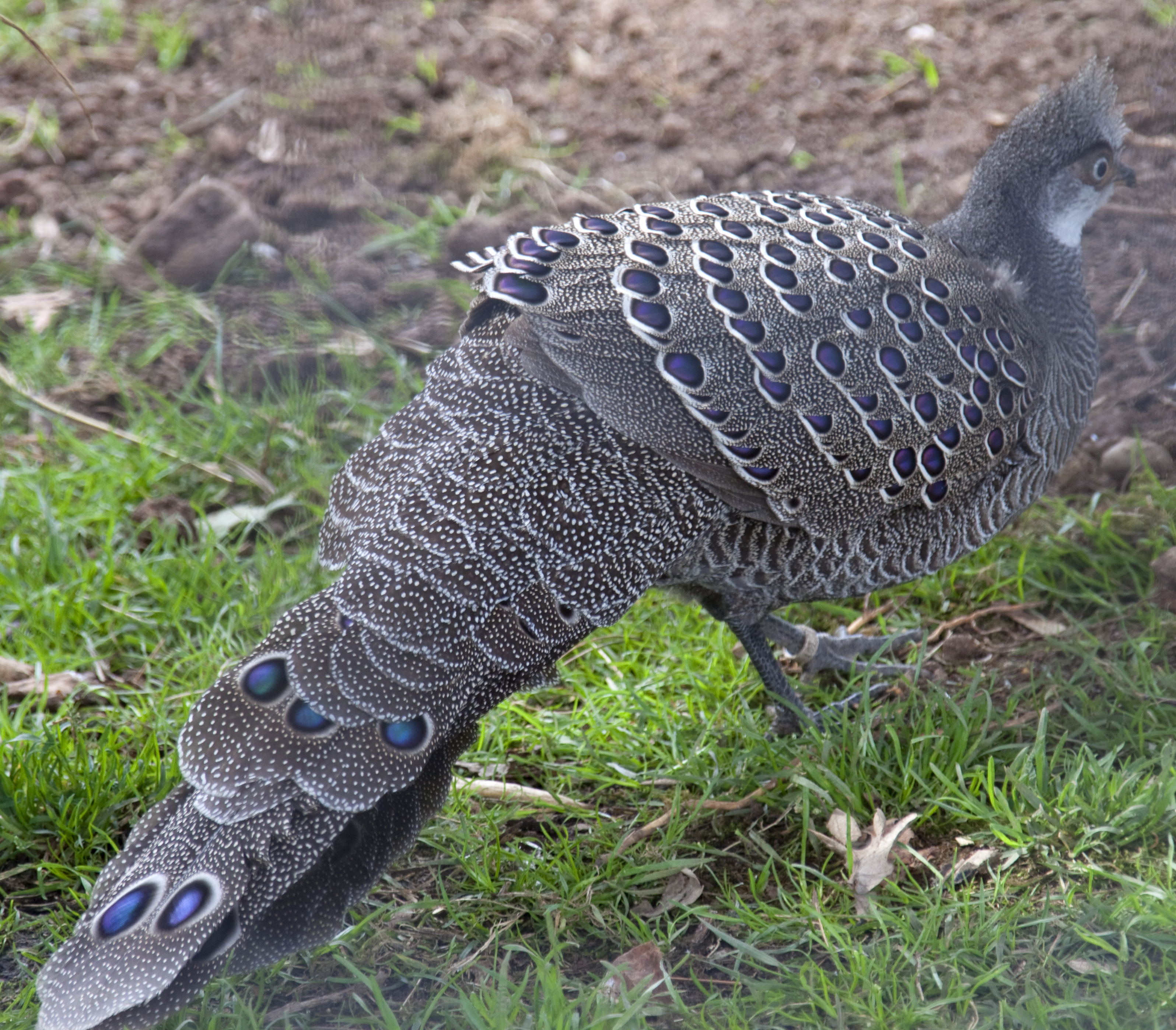 A Grey Peacock-pheasant at Birmingham Nature Centre, Cannon Hill Park, Birmingham, England.